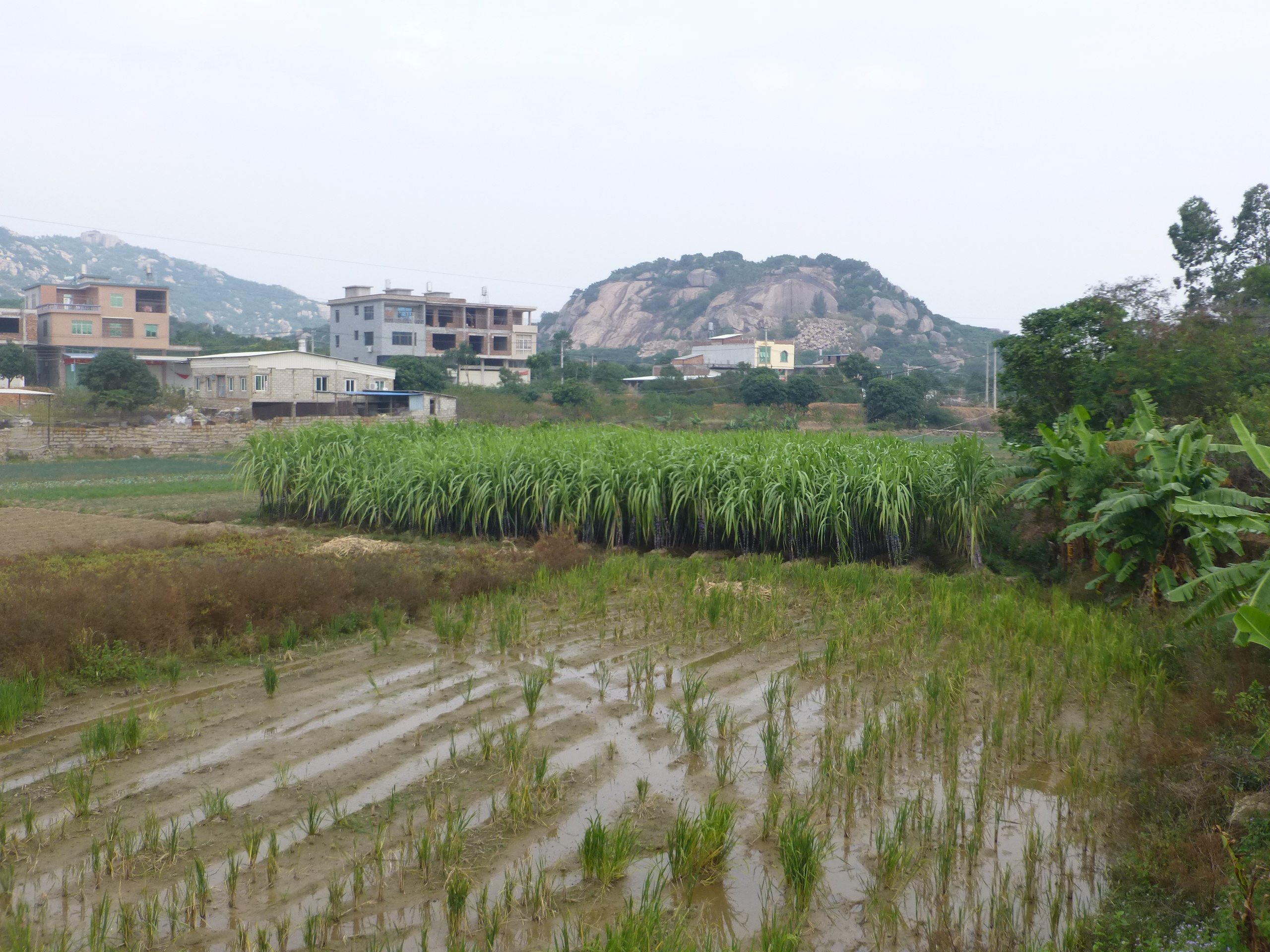 A rural landscape in Shentu Town, Zhangpu County, Fujian, Somewhere east of Shanwei Village 山尾村. Rice, sugar cane, banana plants.